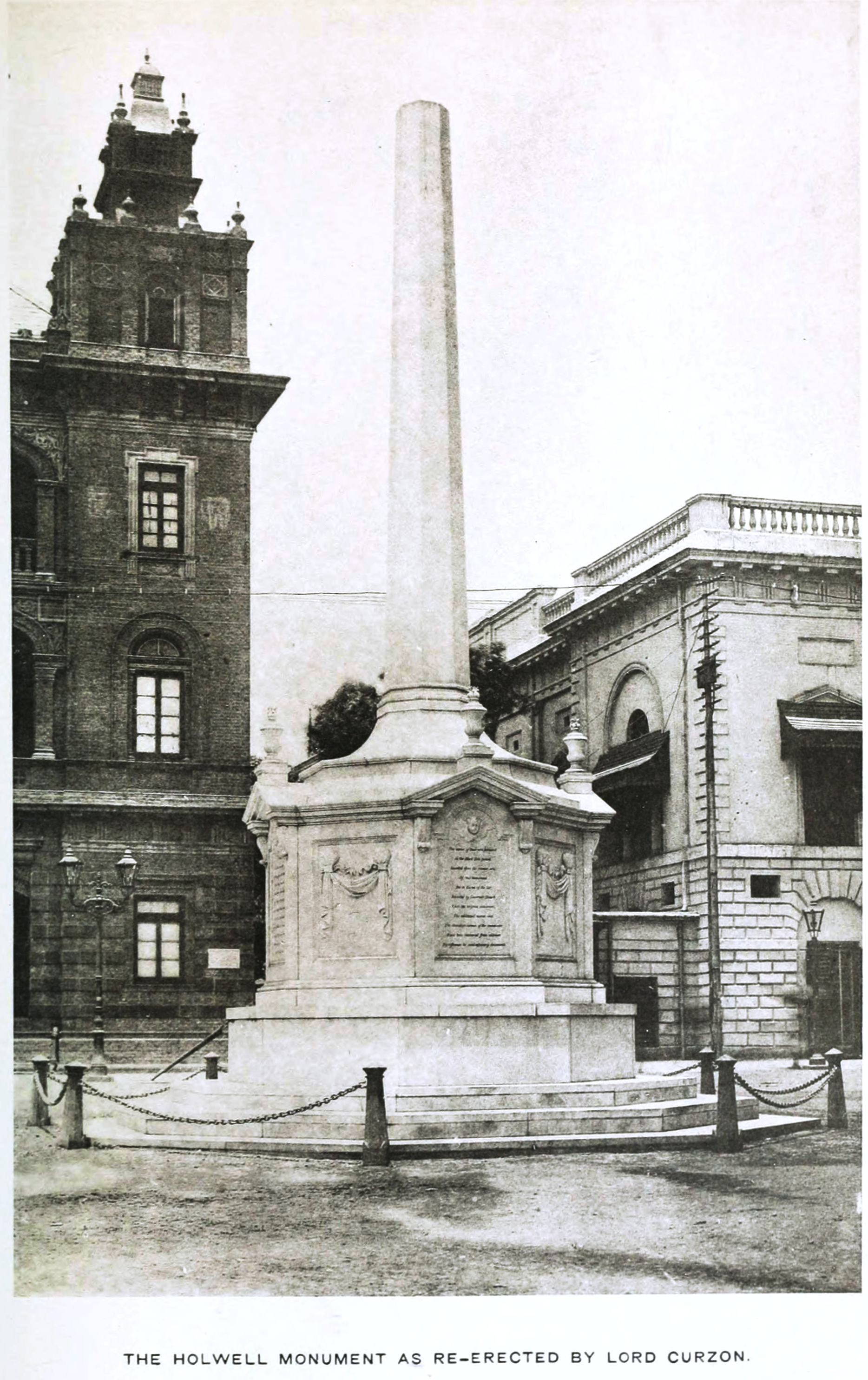 Holwell's monument re-erected by Lord Curzon.